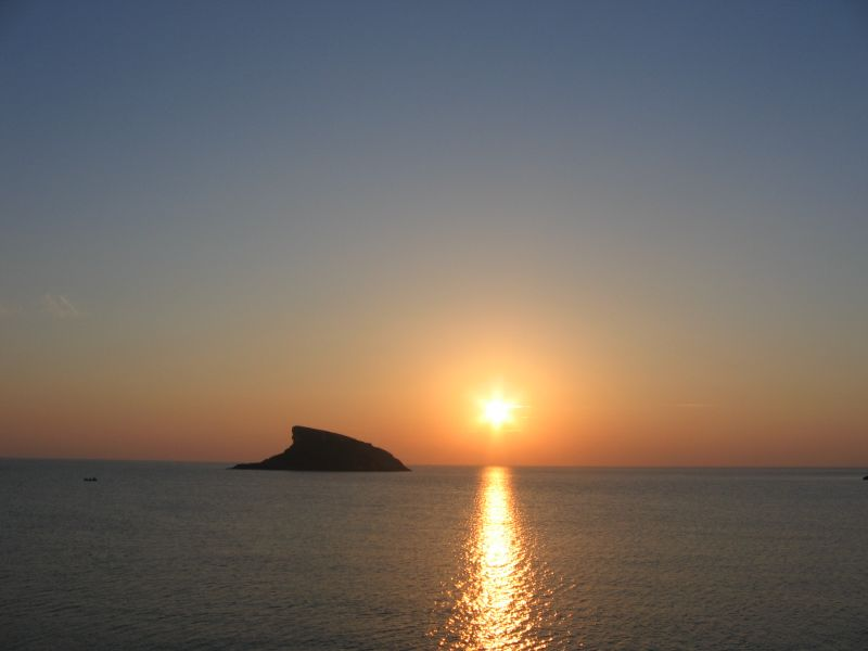 Strongylo Island, SW of Syros, Cyclades, Greece